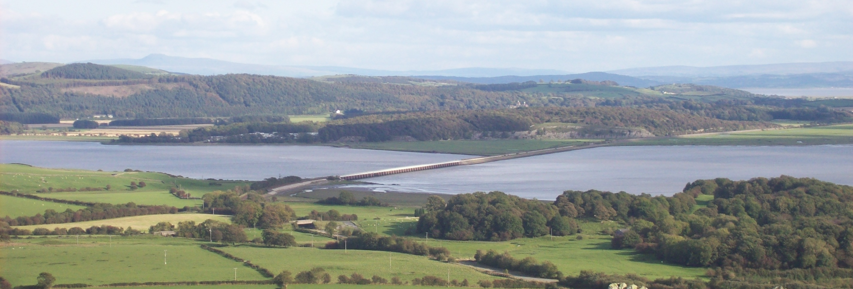 The Leven Estuary, part of the River Leven in Cumbria, with a viaduct used for railway transportation passing over it.